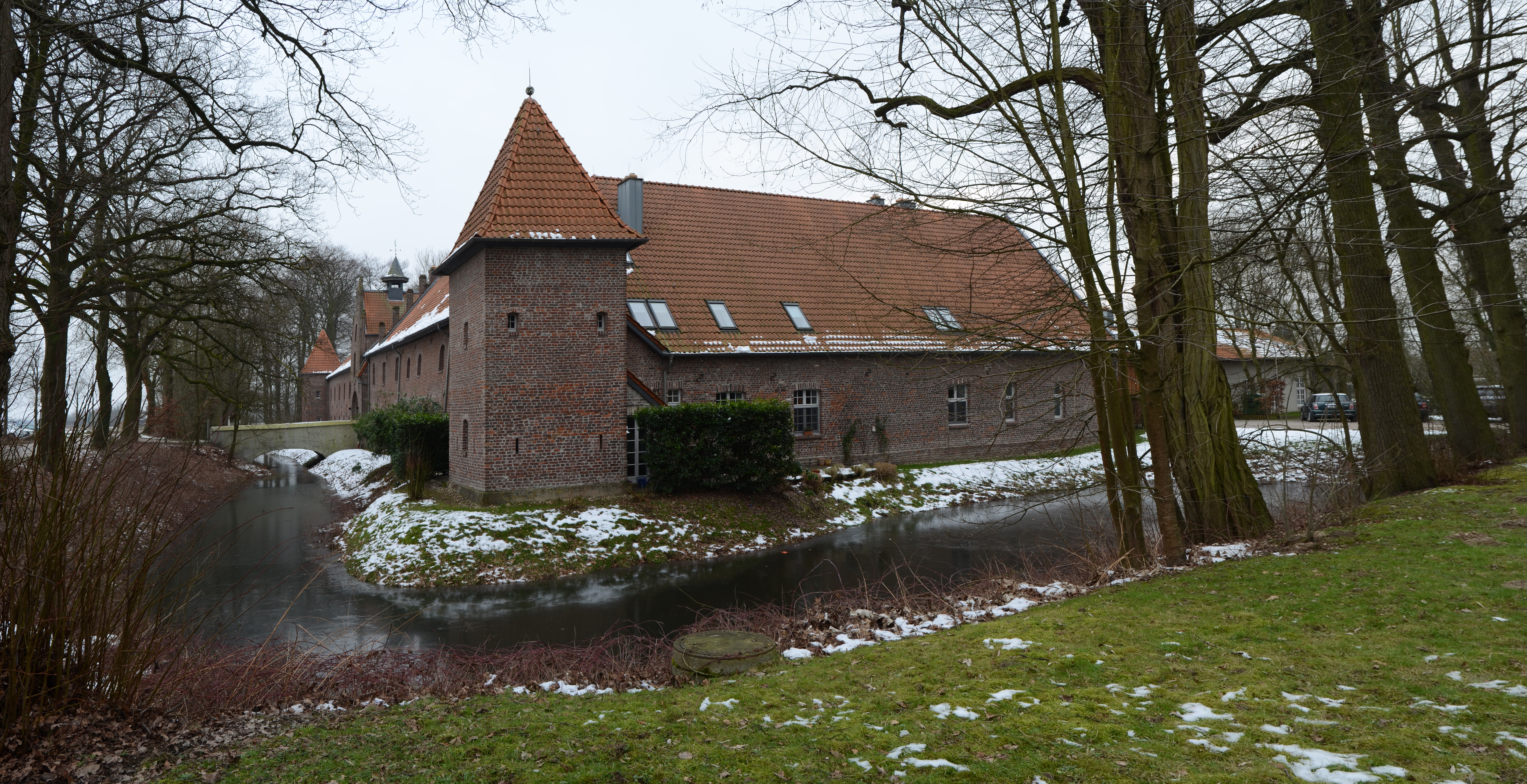 Krefeld (North Rhine-Westphalia, Germany) – district Orbroich – water castle Haus Gastendonk This image shows a heritage building in Germany, located in the North Rhine-Westphalian city Krefeld (no. 163). This photograph was taken with a Nikon D7000.